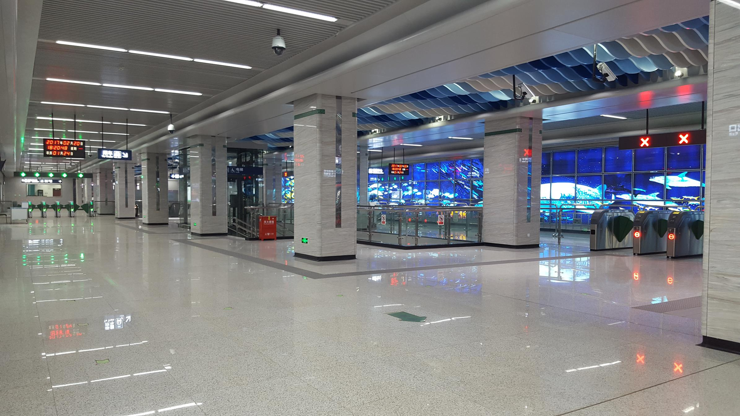 Concourse of North International Expo Centre Station, Wuhan Metro